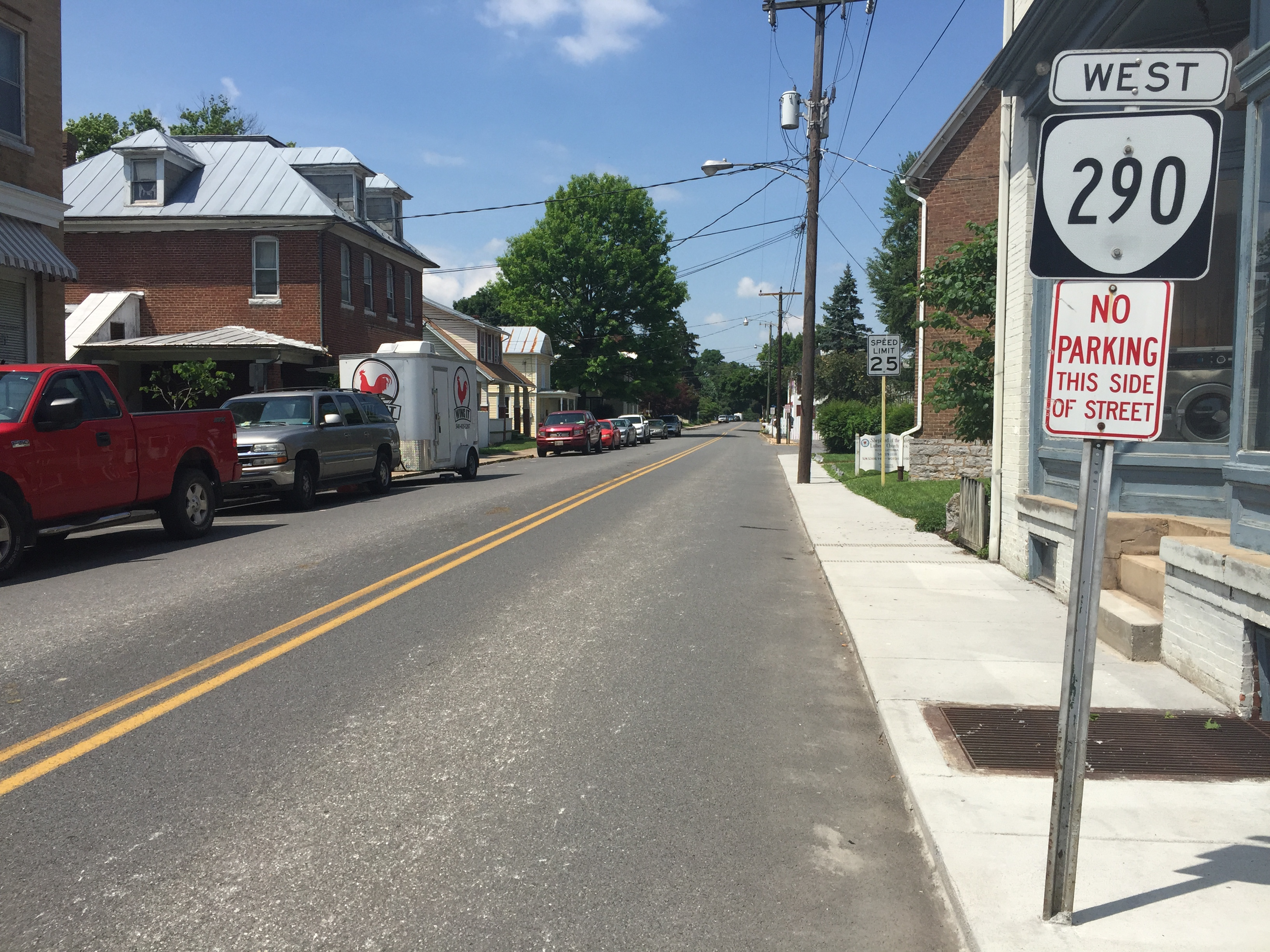 View west along Virginia State Route 290 (College Street) at Cherry Lane in Dayton, Rockingham County, Virginia